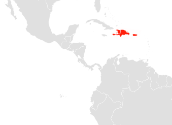 Distribution of Erophylla bombifrons